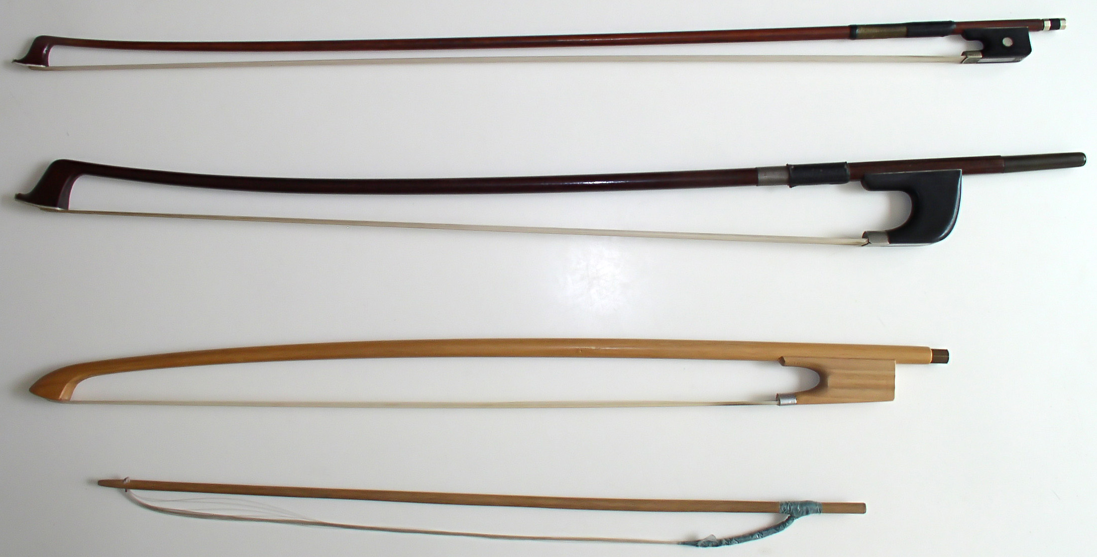 bows of stringinstruments: Viola, Double bass (german) Gadulka Kemenche own picture